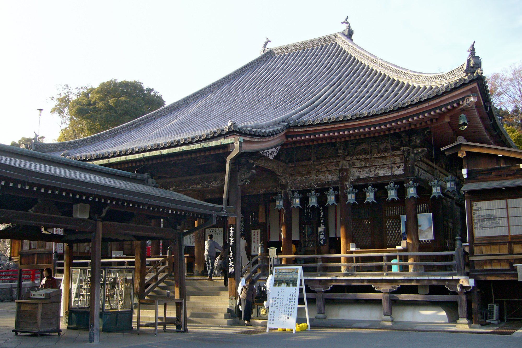 Nakayamadera in Takarazuka, Hyogo prefecture, Japan